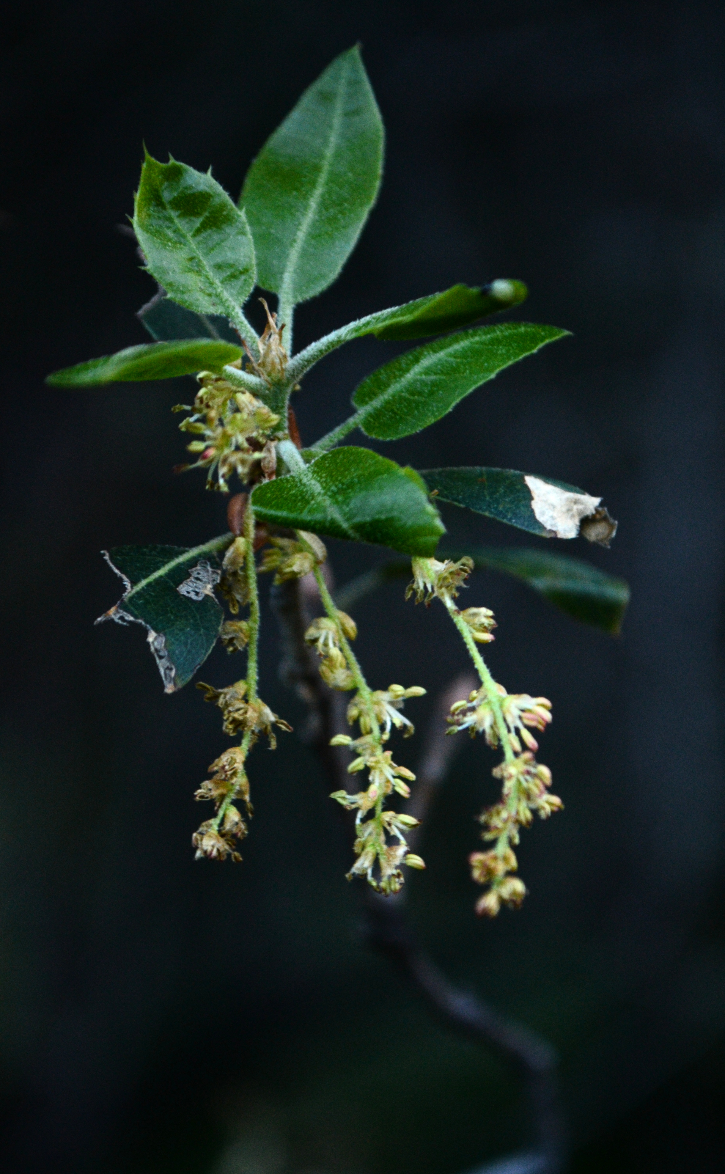 Quercus wislizeni in spring, with new leaves and nearly-spent catkins